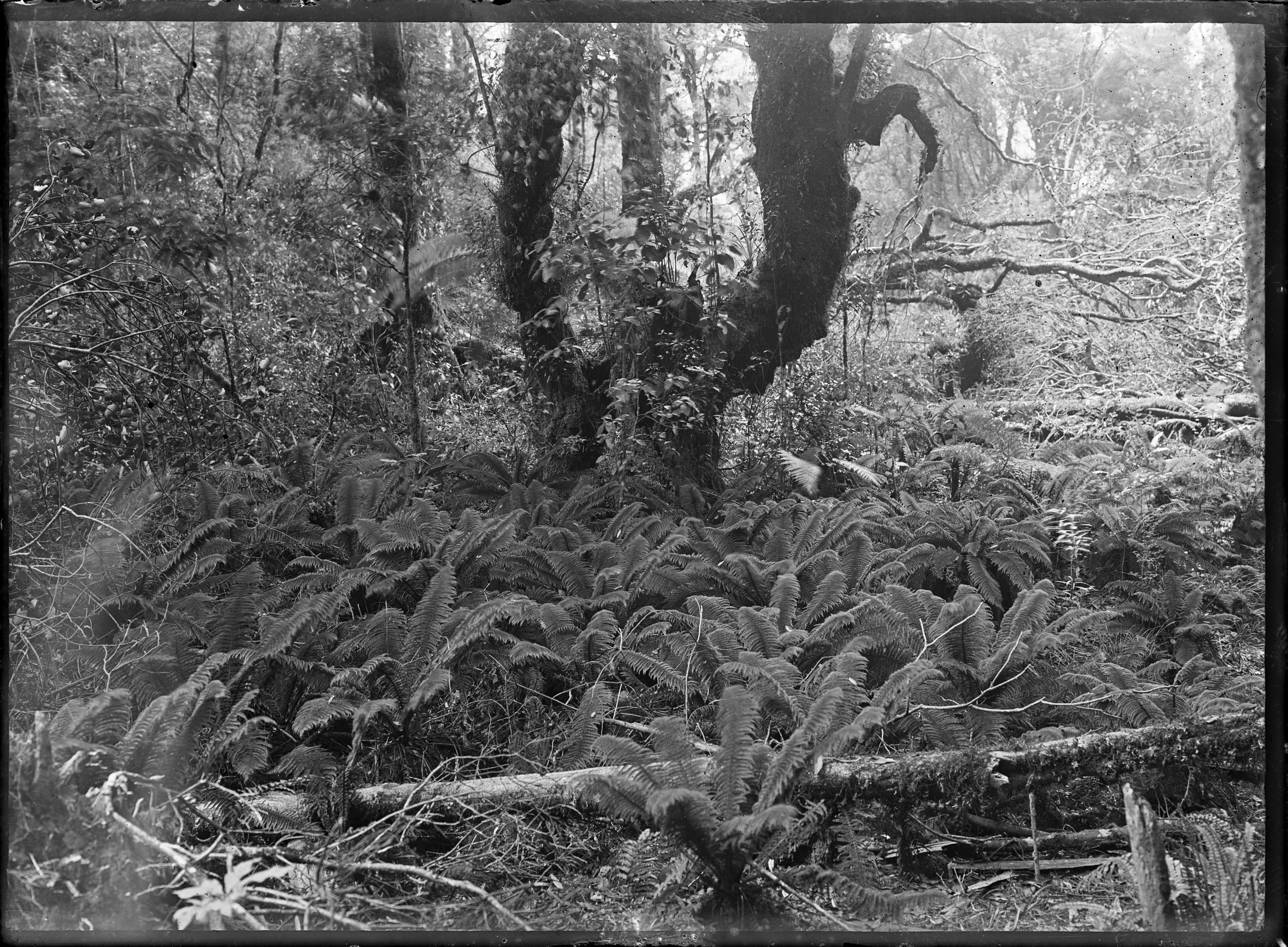 "Prince of Wales" ferns among native bush at Mamaku. Taken by Albert Percy Godber circa 1916.